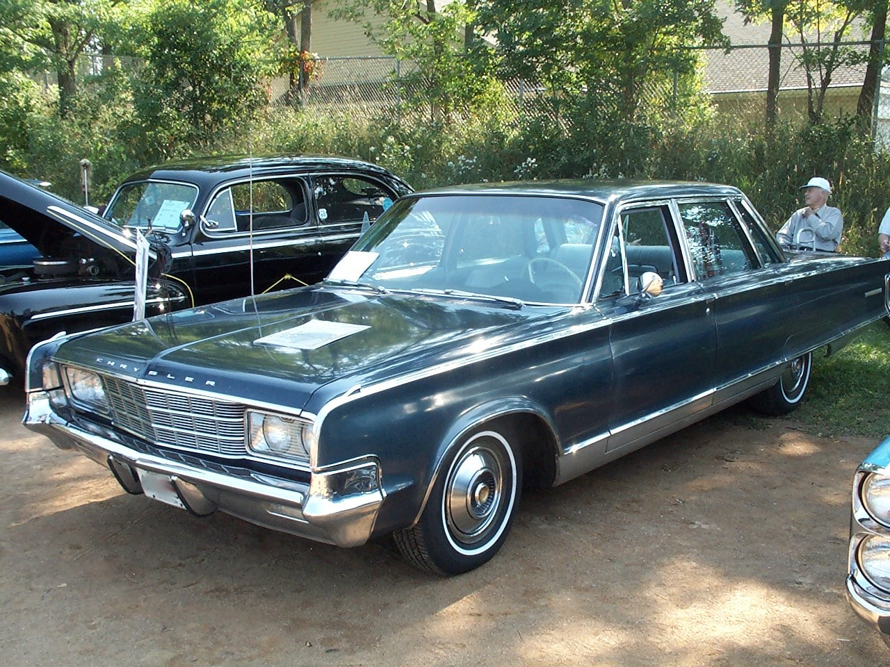 Chrysler New Yorker Town Sedan 1965